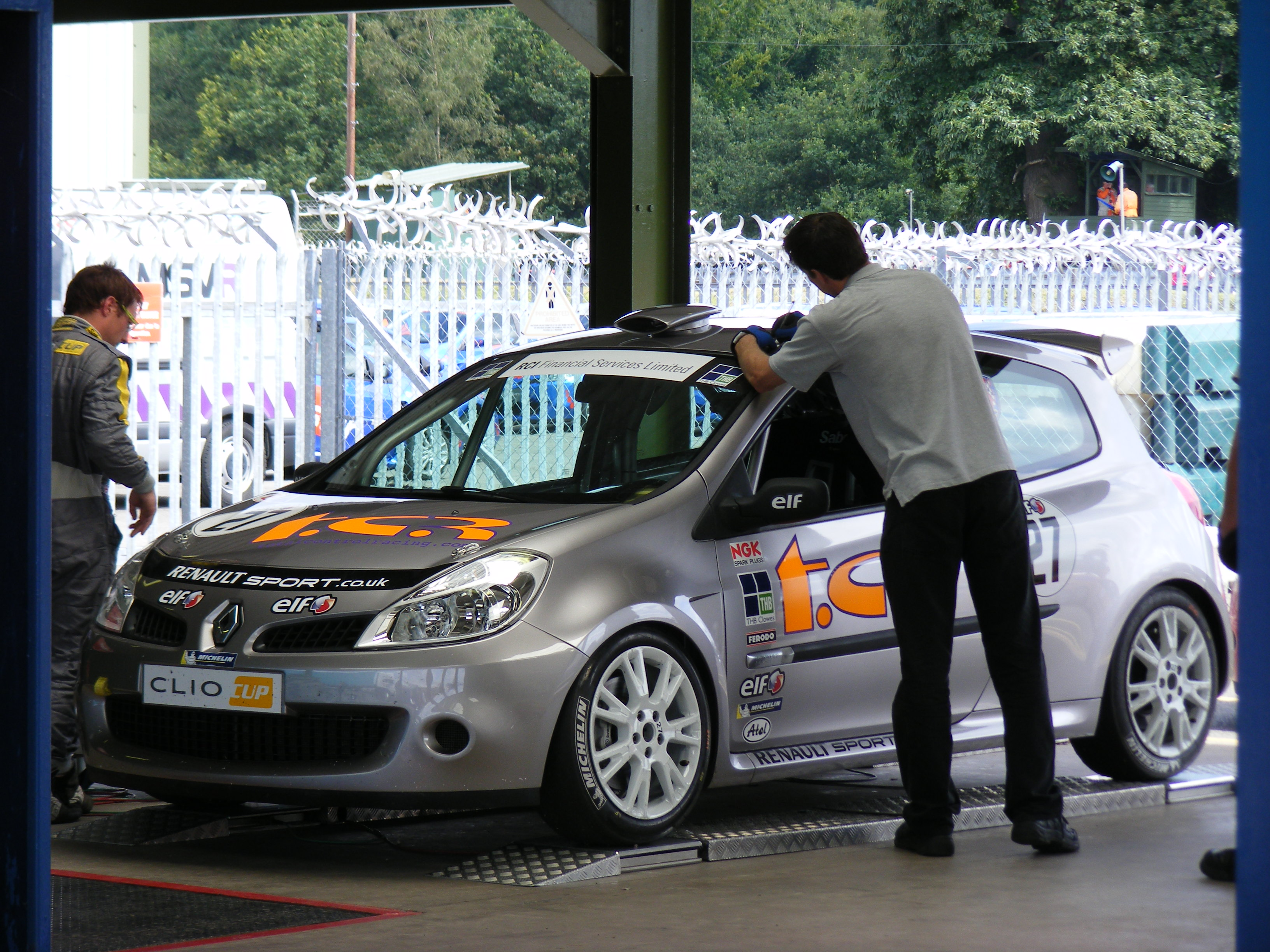 Fulvio Mussi's Renault Clio is inspected by scrutineers at Parc Ferme.